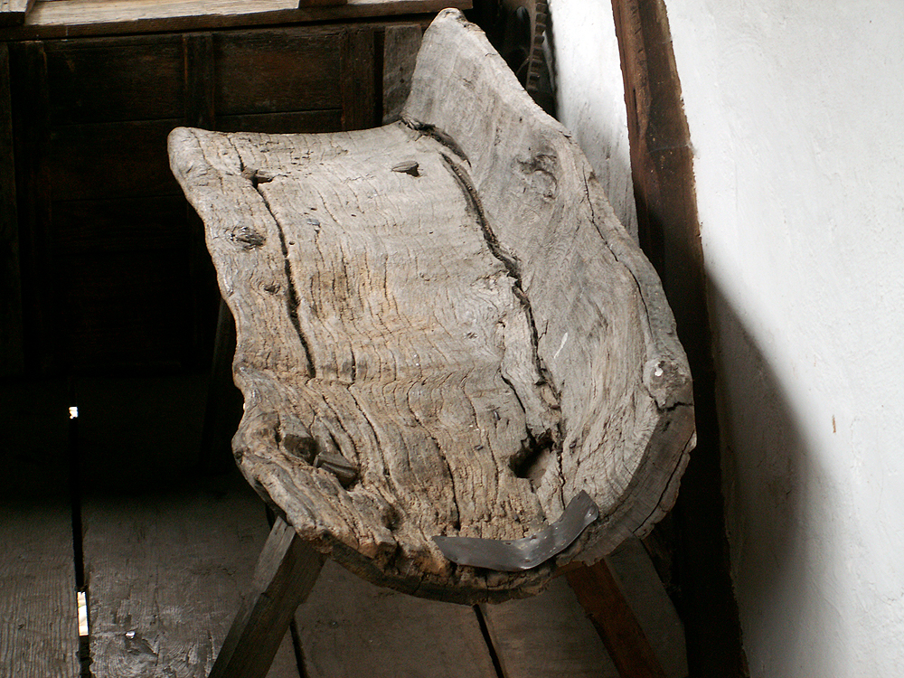 Old bench from Etara Museum, Gabrovo, Bulgaria